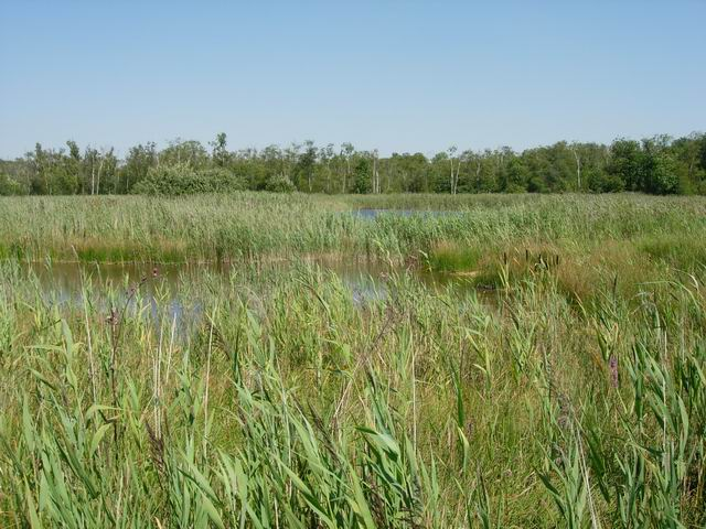 Reedbed at Chippenham Fen With pools dug out. These will gradually fill in with silt and vegetable matter and scrub. Willow and birch would begin to encroach without active management removing them. Normally no access, taken during a volunteer task.